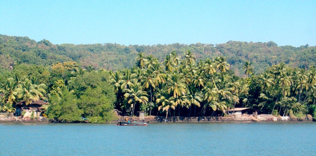 Dabhol beach as seen from the ferry when crossing over from Guhaghar. Gugaghar and Dabhol (site of the Enron power project) fall in the Konkan (coastal Maharashtra).